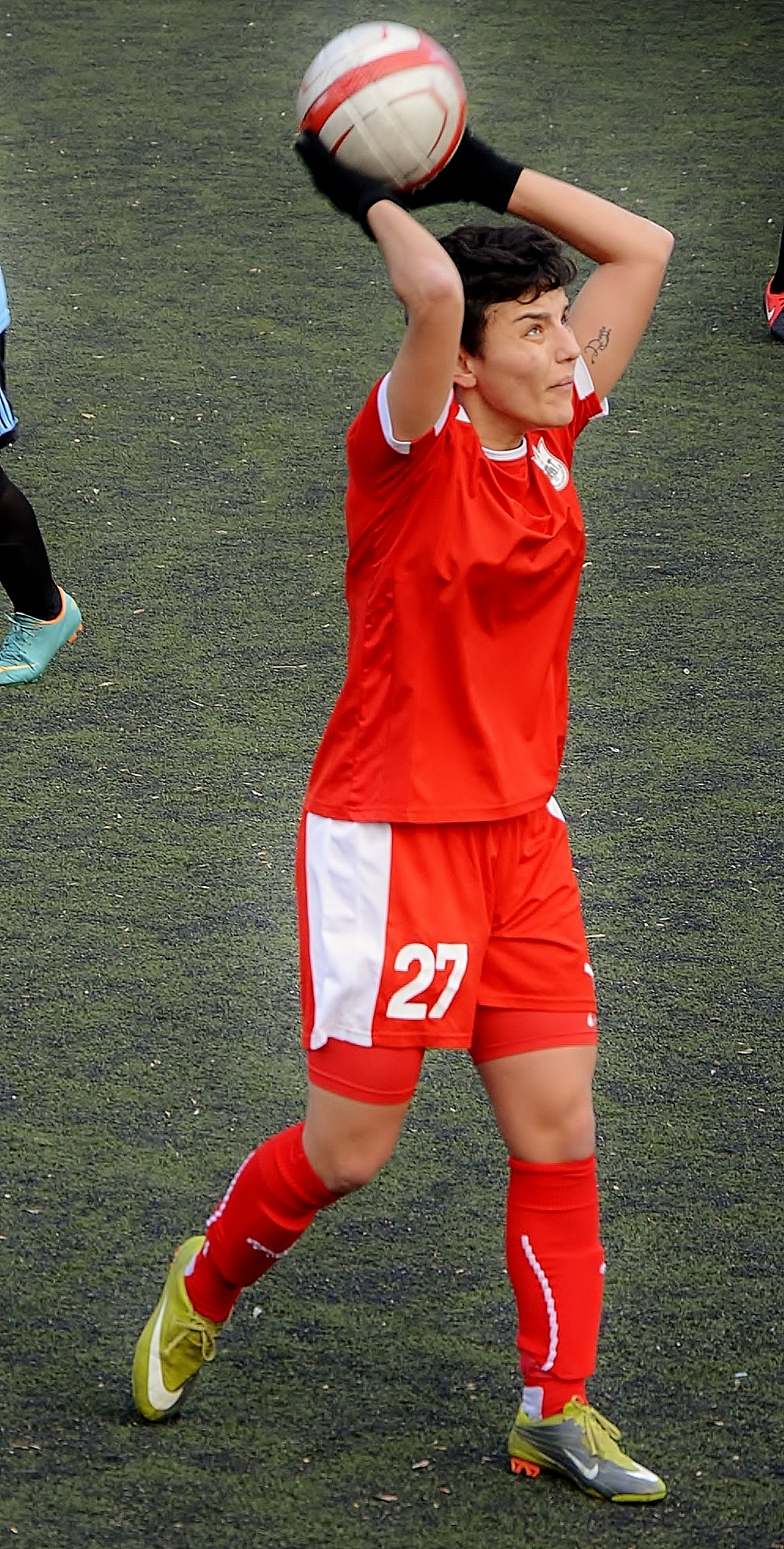 Cansu Yağ Konak Belediyespor midfielder in the Turkish Women's First League match against Marmara Üniversitesi Spor on Jan 12, 2014